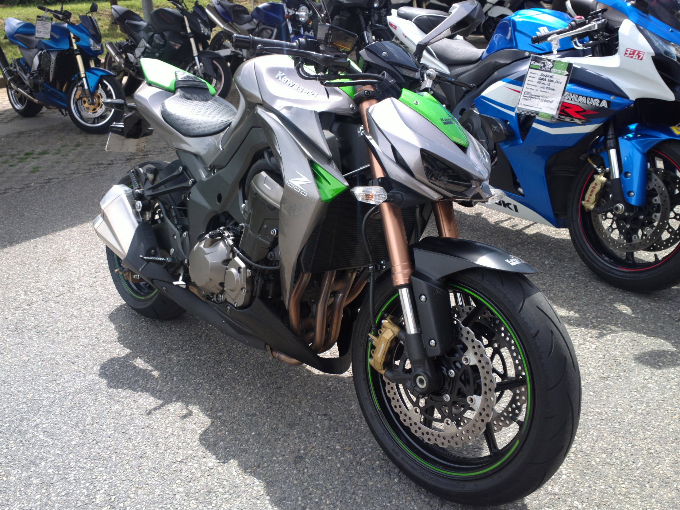 Kawasaki Z-1000 2014 version